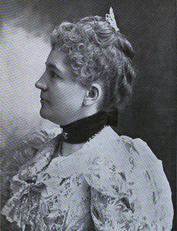 Mary Kavanaugh Oldham Eagle, from an 1896 publication